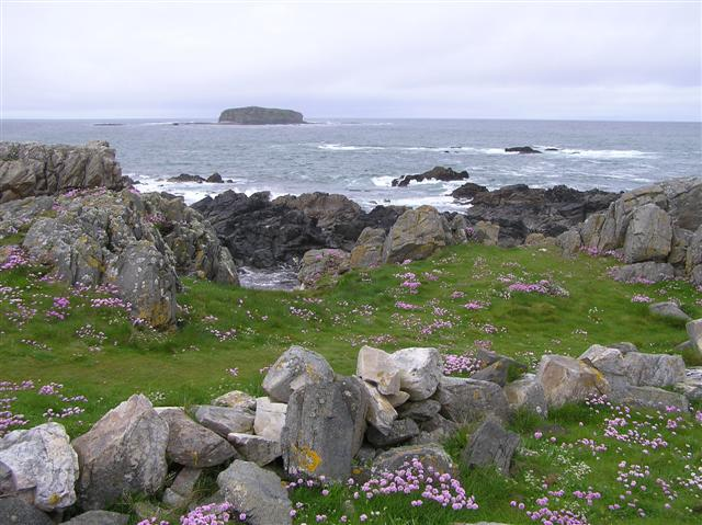 Carrickabraghy, Doagh Island. Looking WNW, in the distance is Glashedy Island - see 1333386